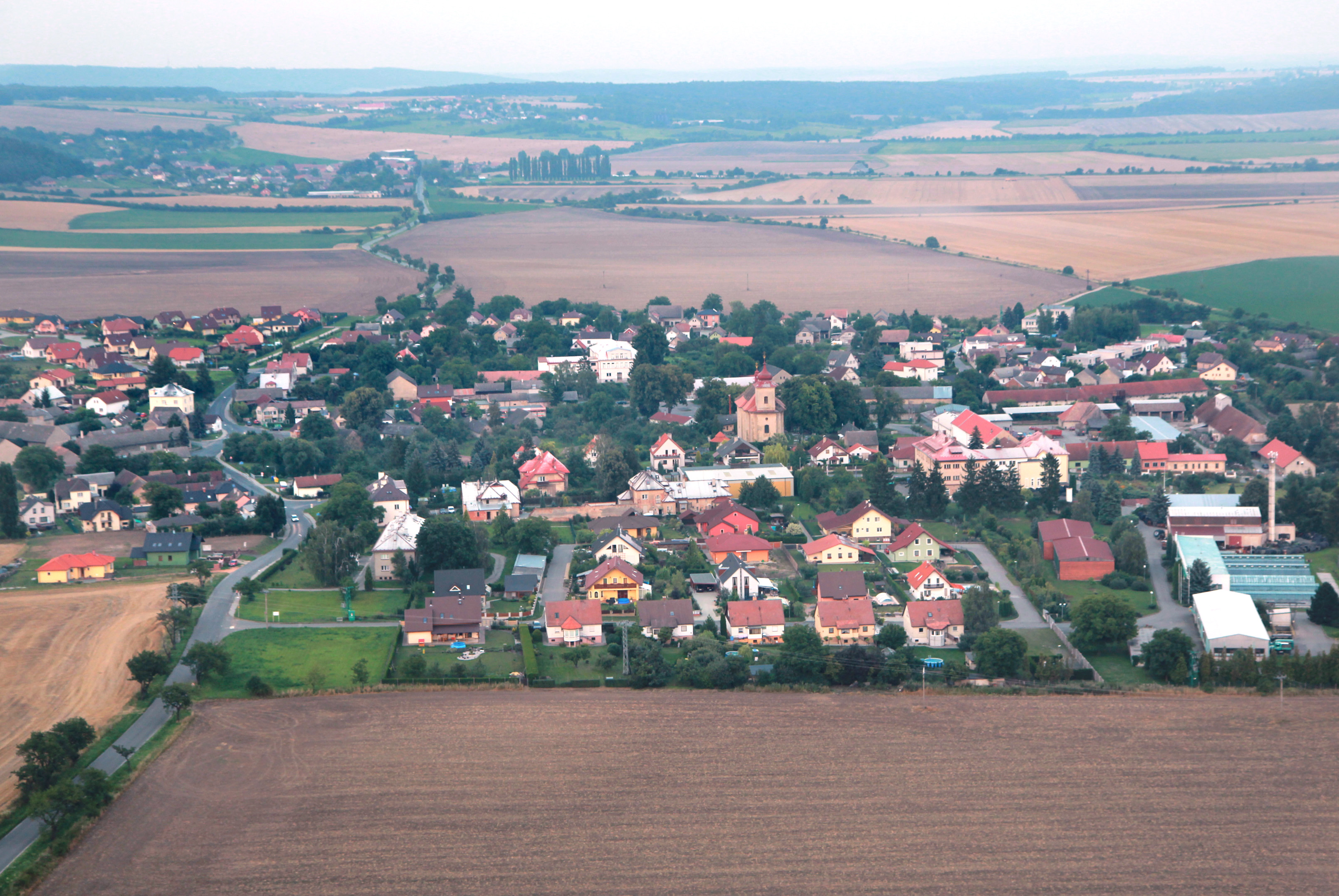 West view of Semčice village, Czech Republic